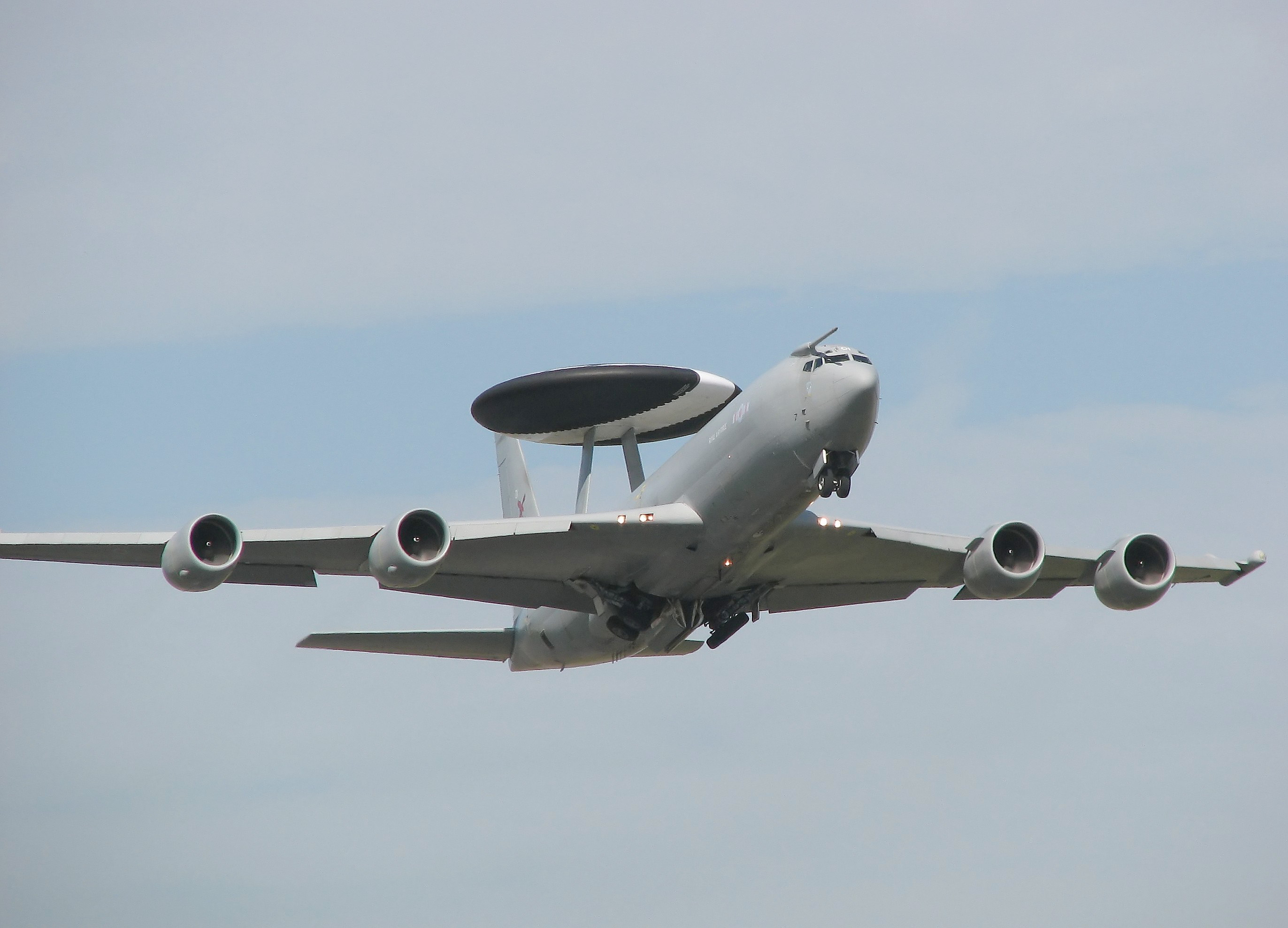 Boeing E3-D Sentry AEW1 (ZH101) of the RAF takes off from the Royal International Air Tattoo, Fairford, Gloucestershire, England. Notice that the wheels are still retracting. Photographed by Adrian Pingstone on July 17th 2006 and released to the public domain.